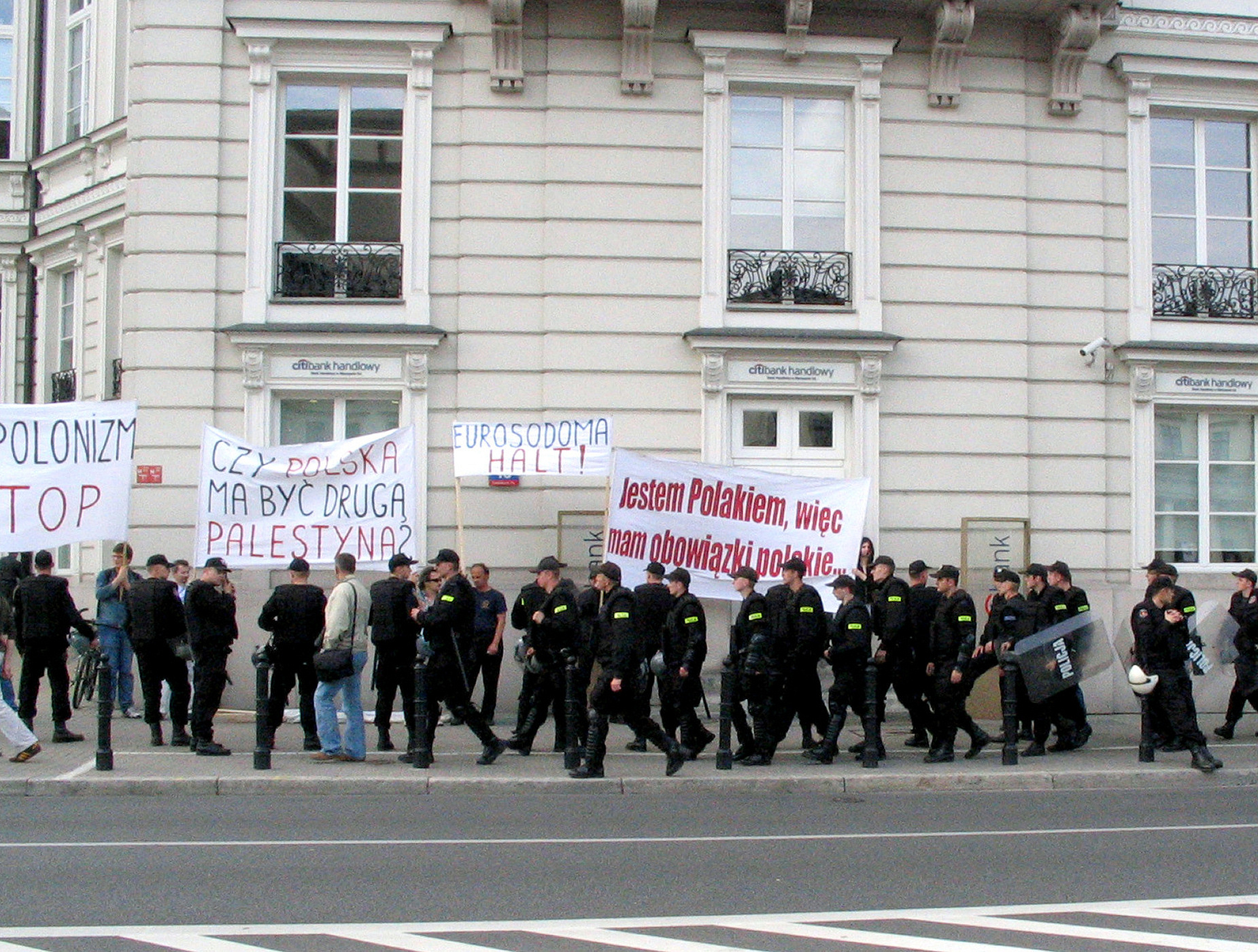 Parada Równości 2006 in Warsaw: Anti-gay demonstrators, separated by police forces. Writings on transparents say: "Polonism top" (probably "Antipolonism stop"), "Does Poland have to be a second Palestine?", "Stop the eurosodom!" and "I'm Polish, so I have Polish duties".